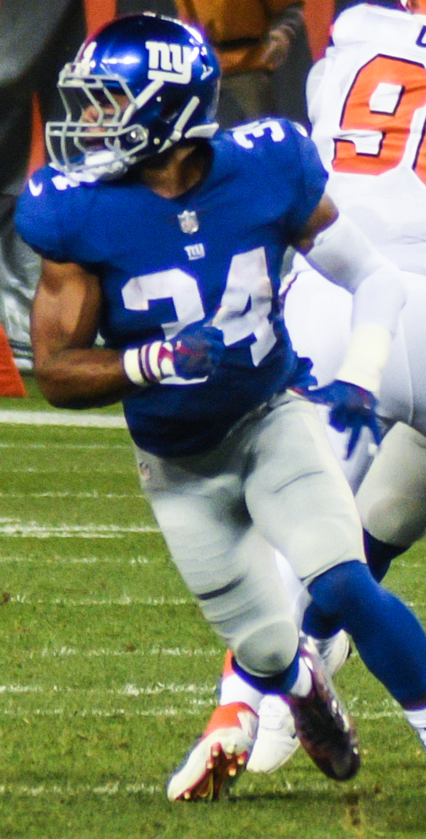 Cleveland Browns vs. New York Giants